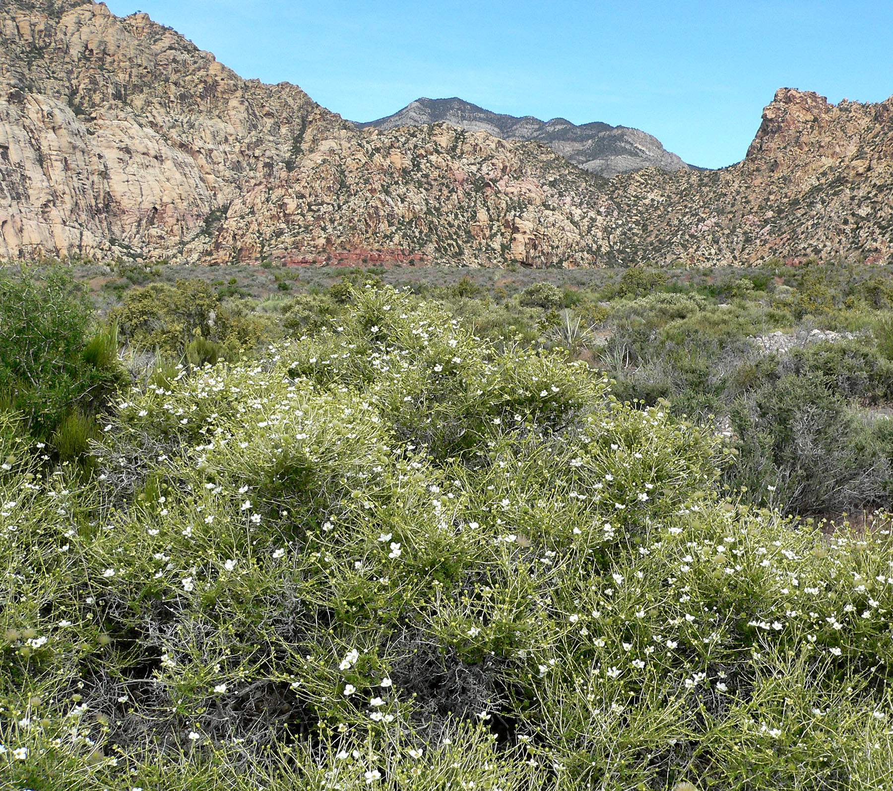 Fallugia paradoxa in Red Rock Canyon, Nevada